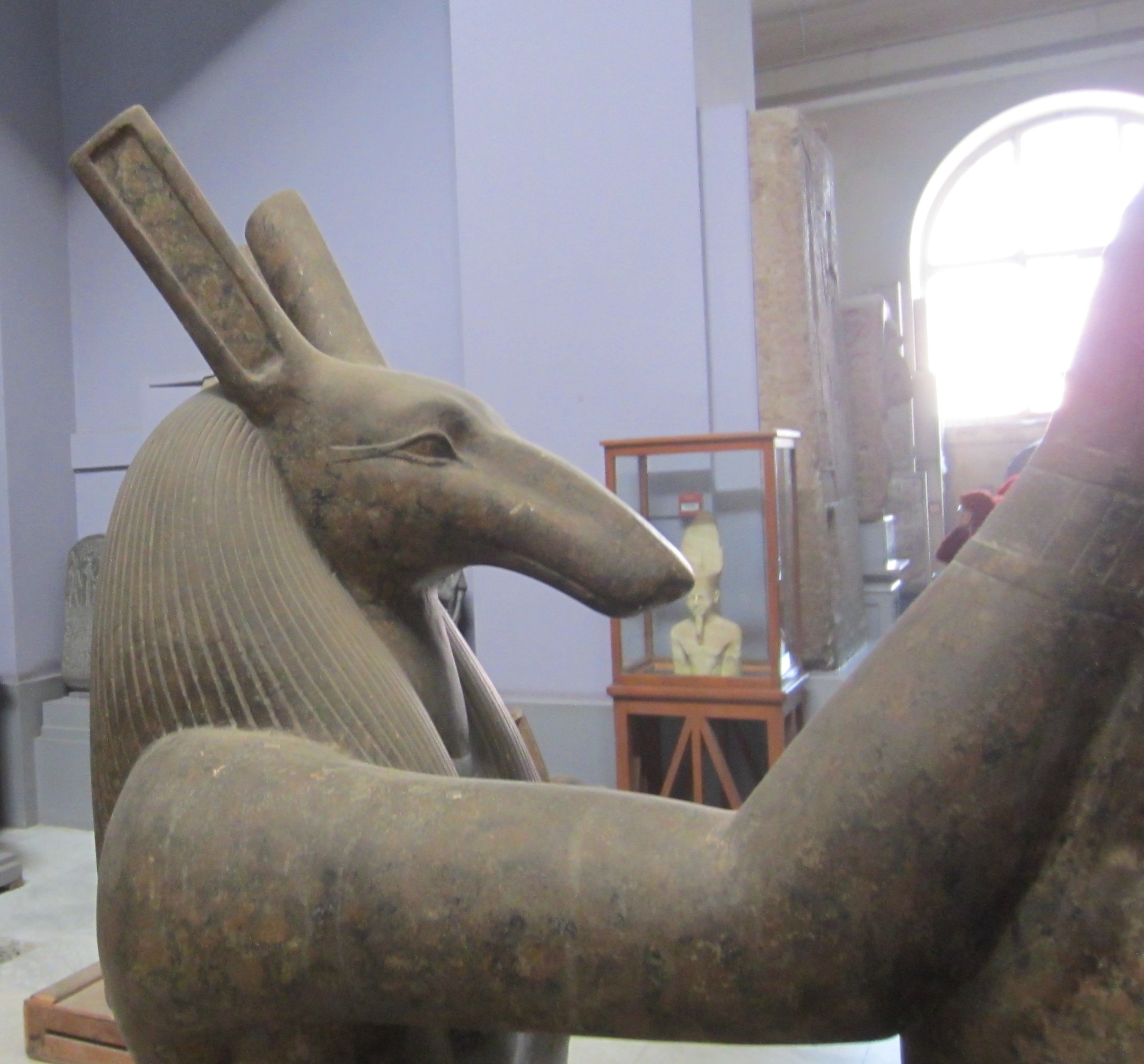 Detail of Seth's face, from a statue of Horus and Seth placing the crown of Upper Egypt on the head of Ramesses III. Twentieth Dynasty, early 12th century BC.